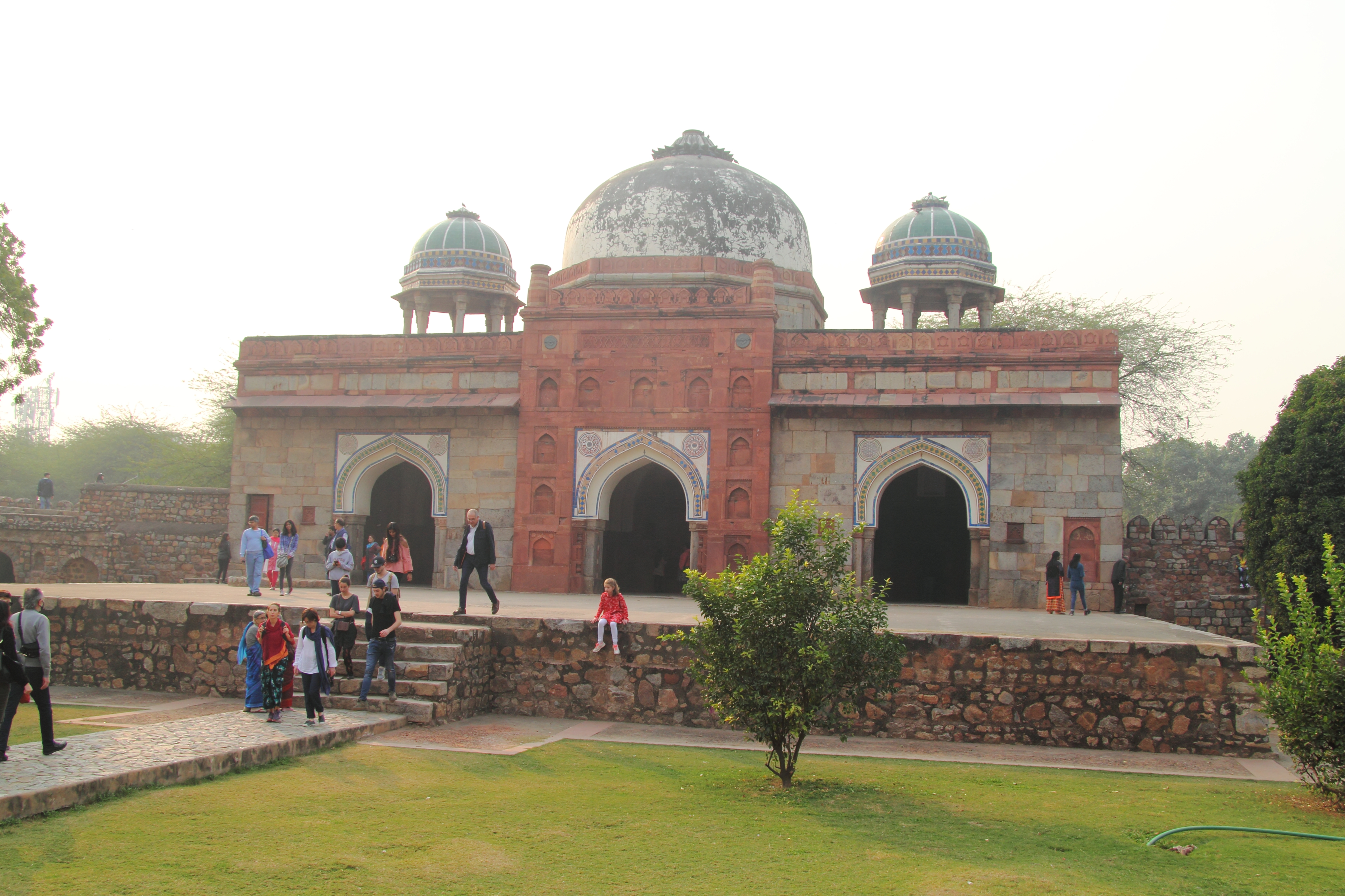 New Delhi, India: Tomb of Isa Khan Niazi, close to Humayun’s Tomb